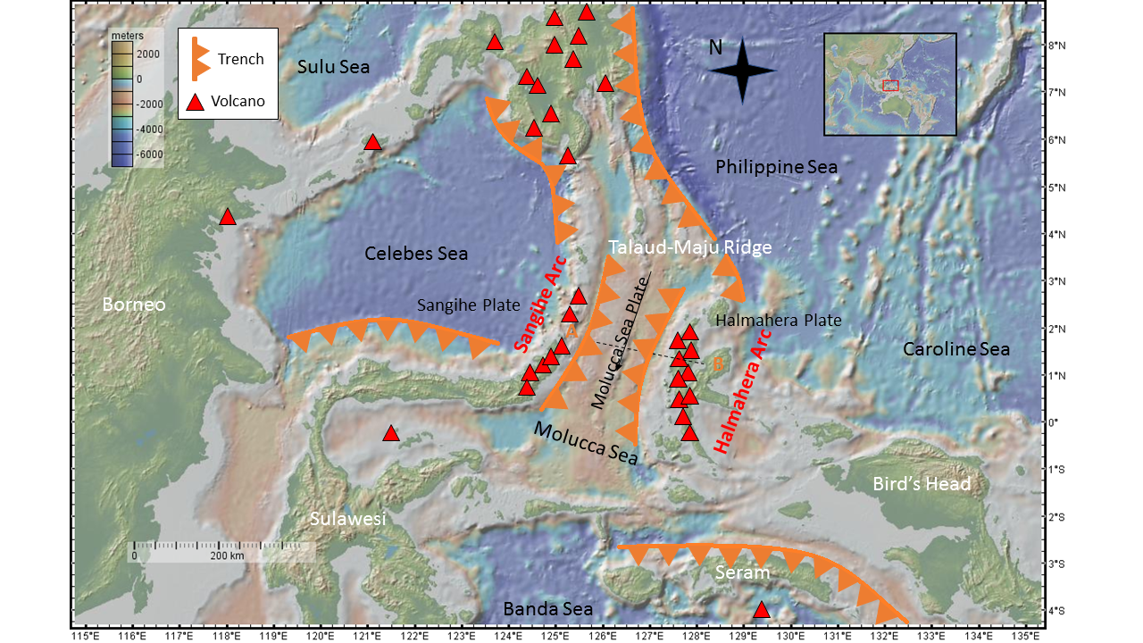 Image inspired by Zhang et al.